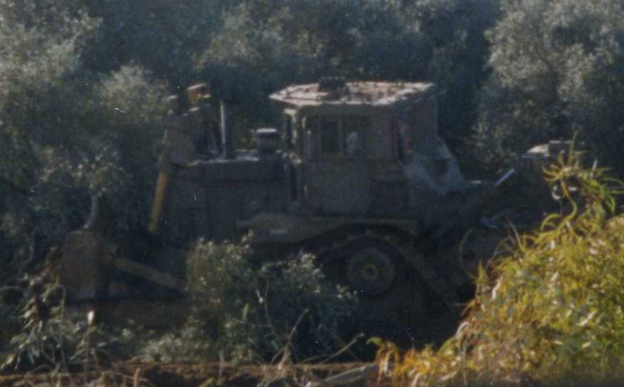 IDF Caterpillar D9 bulldozer working in Al-Bureij refugee camp, central Gaza Strip.